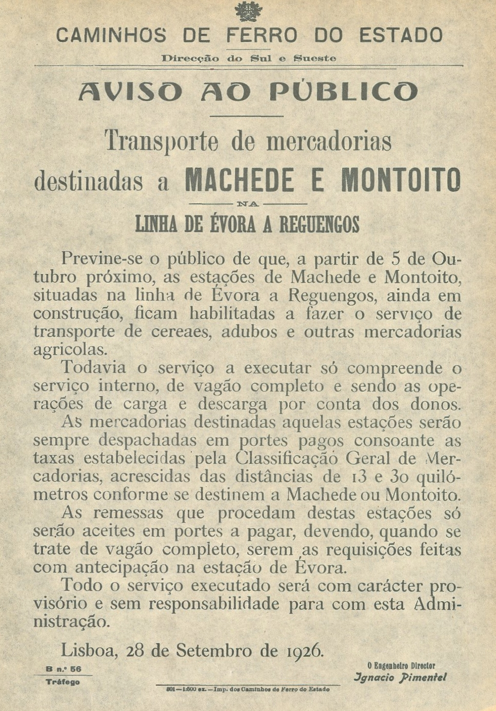 Public notice of the Caminhos de Ferro do Estado (State Railways) about the provisory opening of the Machede and Montoito railway stations, on the Reguengos Railway, in Portugal. This image was published on the Gazeta dos Caminhos de Ferro magazine no. 932, of the 16th October 1926, and scanned by the Hemeroteca Municipal de Lisboa.